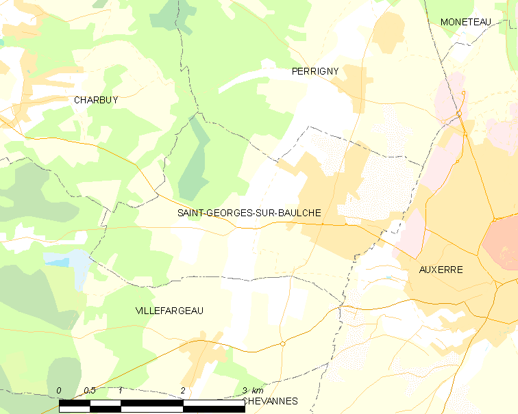 Map of French municipality Saint-Georges-sur-Baulche